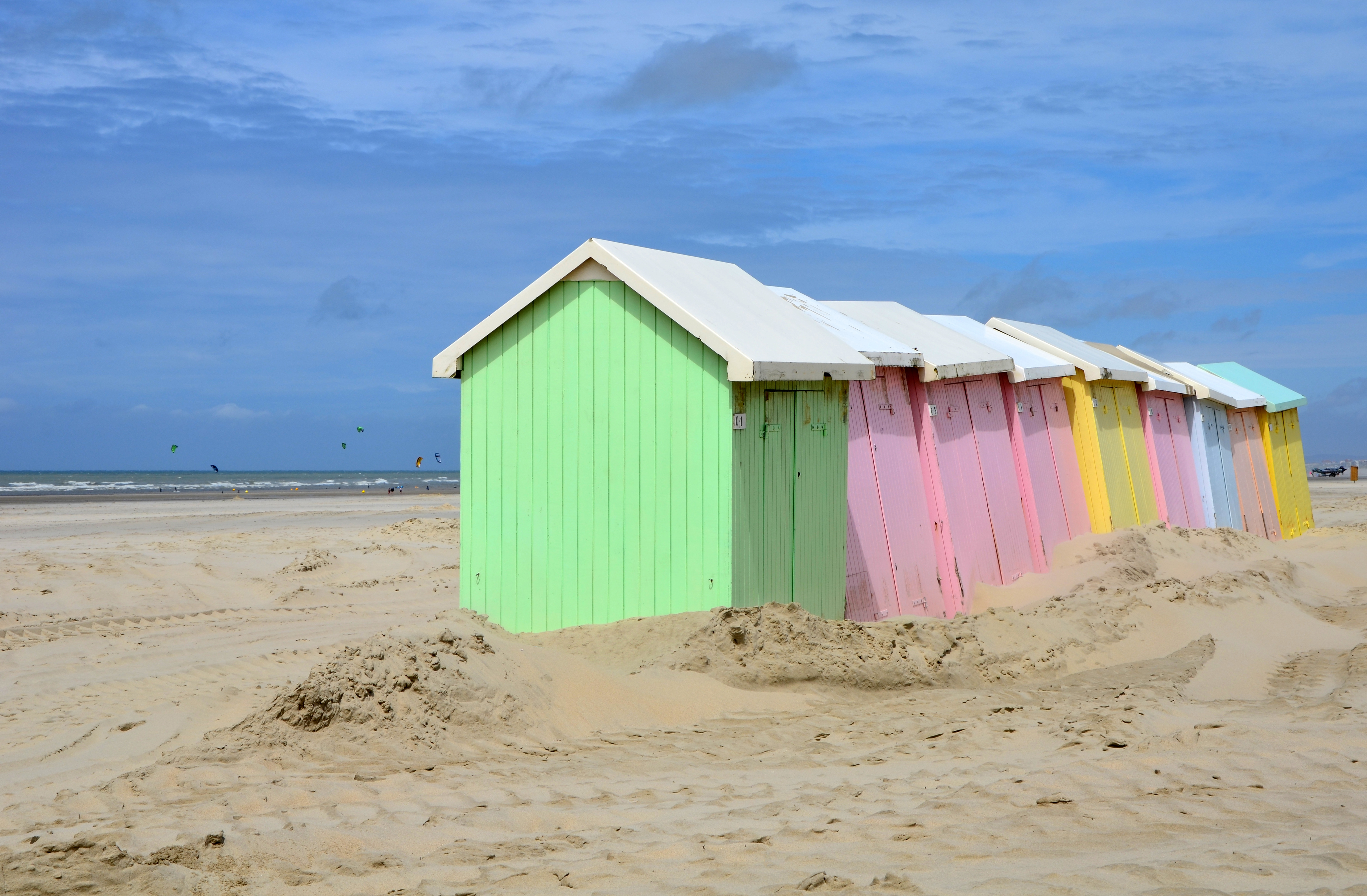 Beach huts in Berck (Pas de Calais, France)